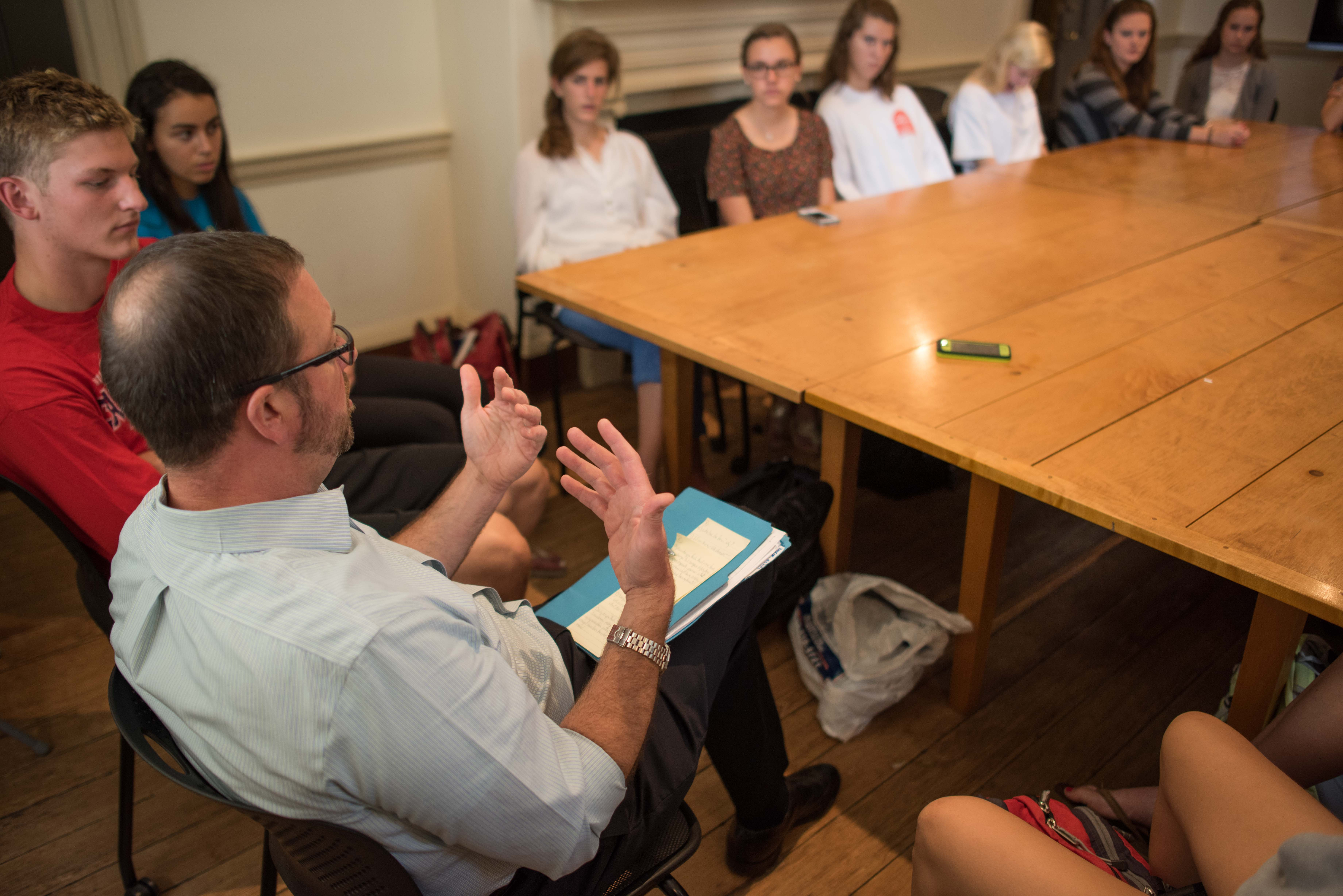 Production Still. Professor Kirt vonDaacke at work teaching the history of the University of Virginia and Slavery in the documentary film “Unearthed and Understood” by Eduardo Montes-Bradley